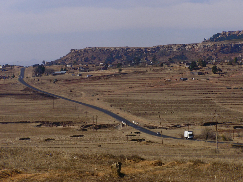 National Highway A1 in rural Leribe District, Lesotho.